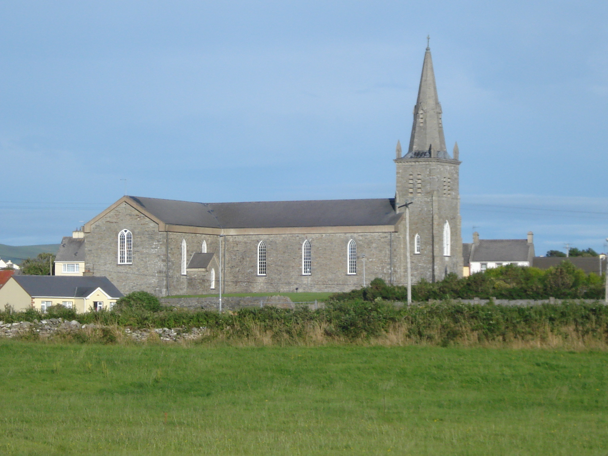 Roman-Catholic St. Josephs Church in Milltown Malbay, co. Clare, Ireland